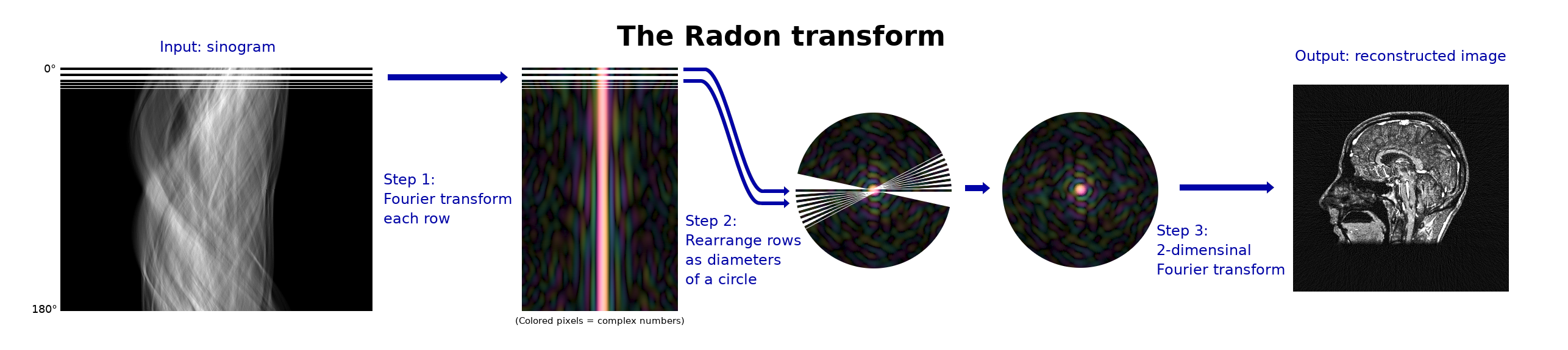 Illustration of how to compute the 2-dimensional Radon transform in terms of several Fourier transforms.